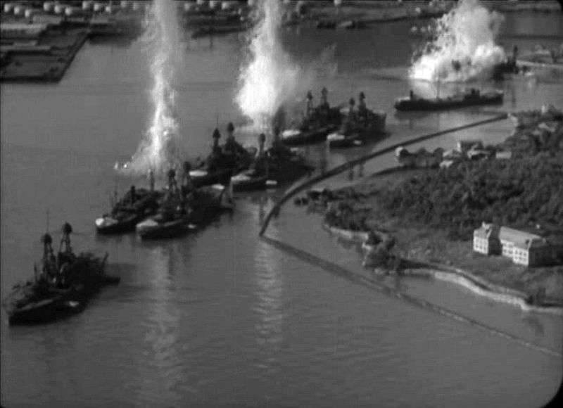 Pearl Harbor Attack scene from "Hawai Mare oki kaisen (The War at Sea from Hawaii to Malay)".